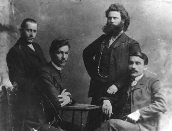 Tane Nikolov